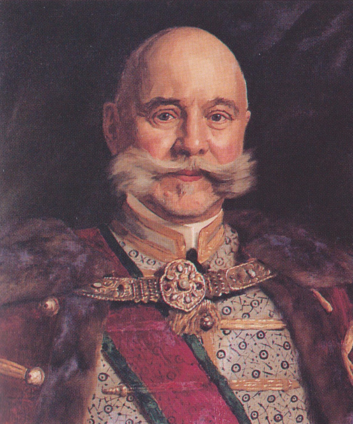 Dezső Bánffy, Hungarian prime minister